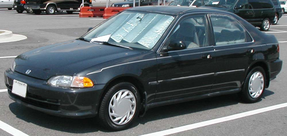 1991-1995 Honda Civic sedan photographed in USA.